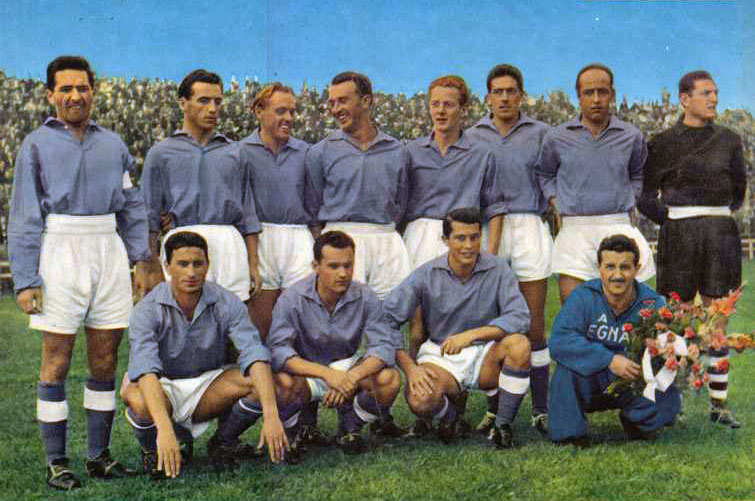 A line-up of A.C. Legnano in the 1952–53 season. From left to right, standing: L. Lupi, L. Sassi (II), I. Eidefjäll, L. Asti, K.-E. Palmér, F. Pian, A. Torreano, M. Longoni; crouched: R. Sassi (I), N. Manzardo, E. Motta.